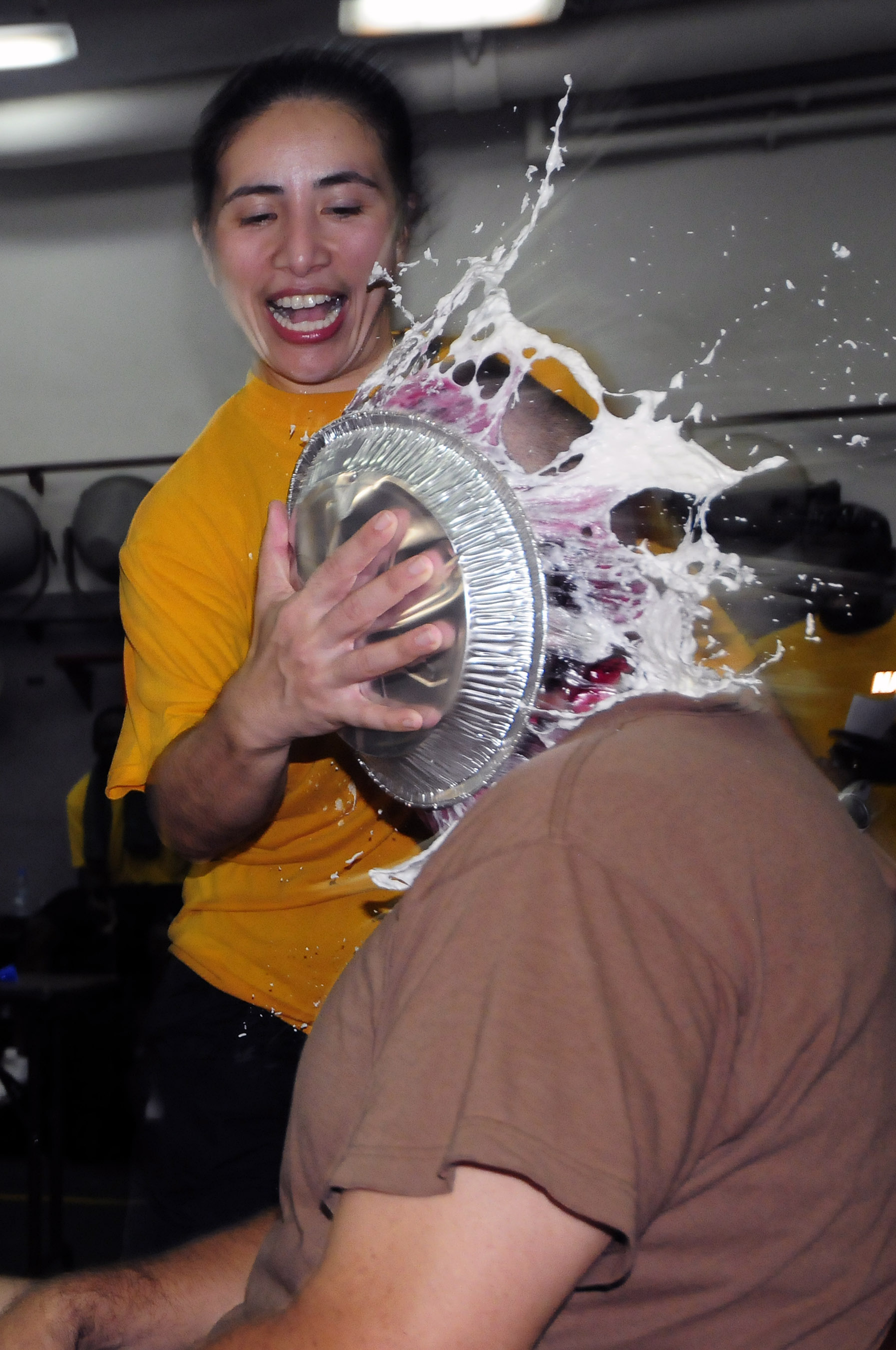 PACIFIC OCEAN (Sept. 12, 2011) Ensign Patricia Cunanan shoves a pie in the face of Command Master Chief Michael Lucas during a fundraiser aboard the amphibious dock landing ship USS Comstock (LSD 45). Comstock is deployed in the U.S. 7th Fleet area of responsibility during a western Pacific deployment. (U.S. Navy photo by Mass Communication Specialist 2nd Class Joseph M. Buliavac/Released)